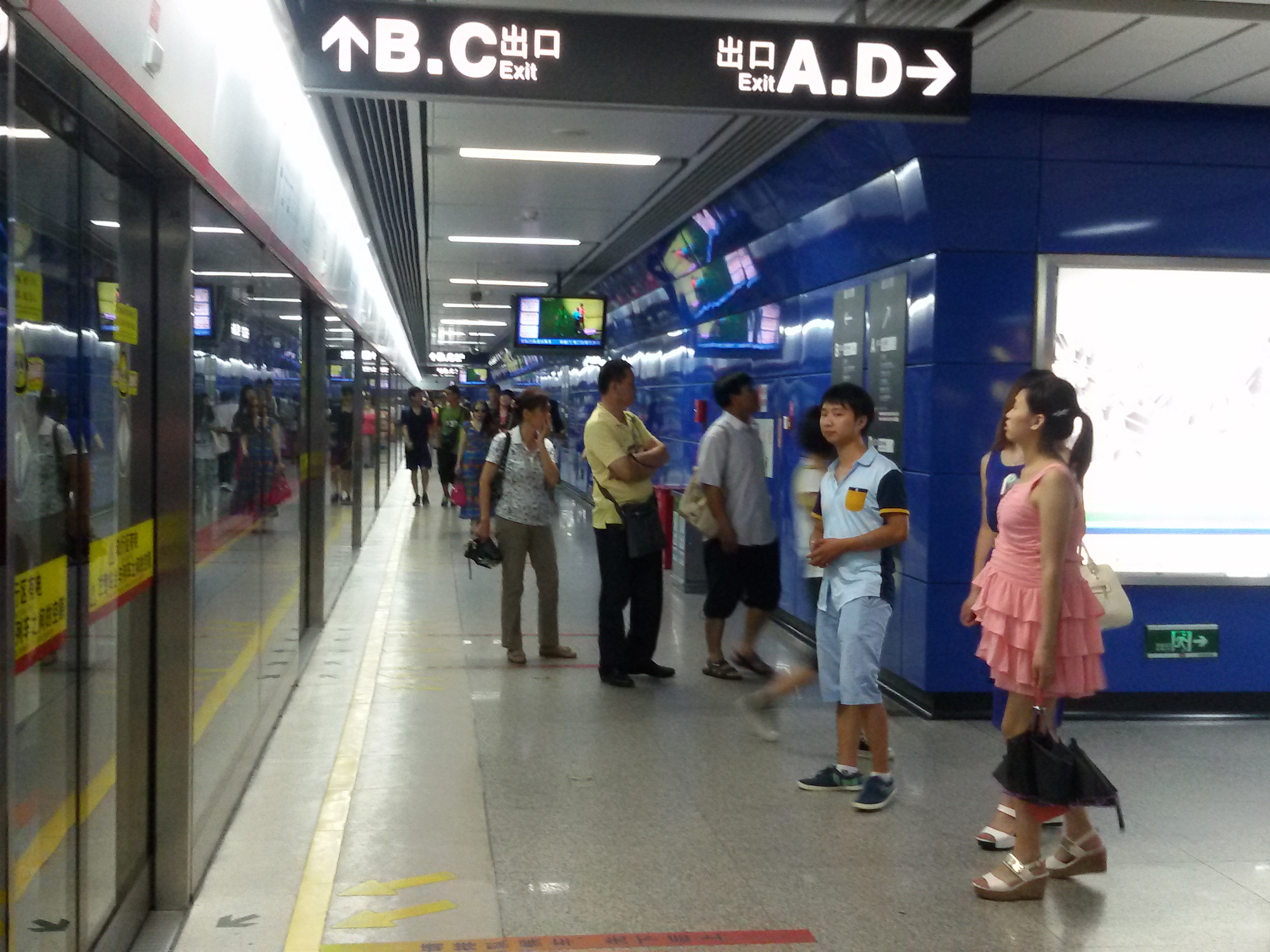 Station Platform for Xiaobei Station, Guangzhou Metro 粵語: 小北站嘅站台